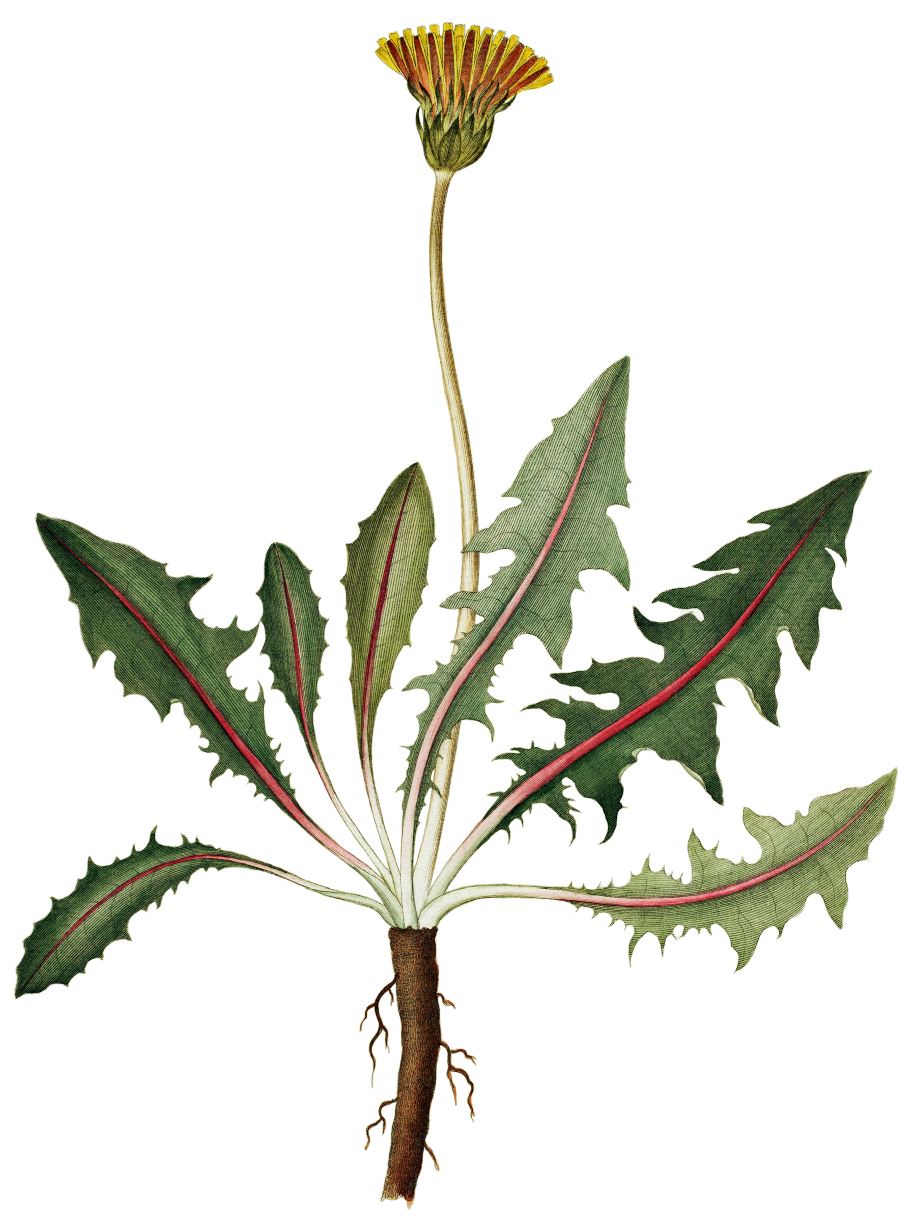 Taraxacum palustre DC. [as Leontodon palustris Lyons]